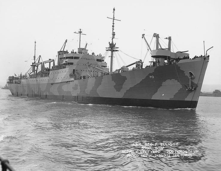 The U.S. Navy Heywood-class troop transport USS George F. Elliott (AP-13) off the Norfolk Naval Shipyard, Virginia (USA), on 1 January 1942.